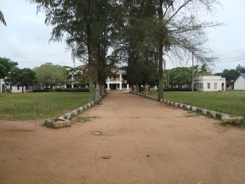 The picture with the title Mbaise Secondary School was taken by the photographer vnchilaka on 22 April 2009 and published over Panoramio. Mbaise Secondary School is next to Oboama and is located in Imo State, Nigeria. You can see the original site of the image here.